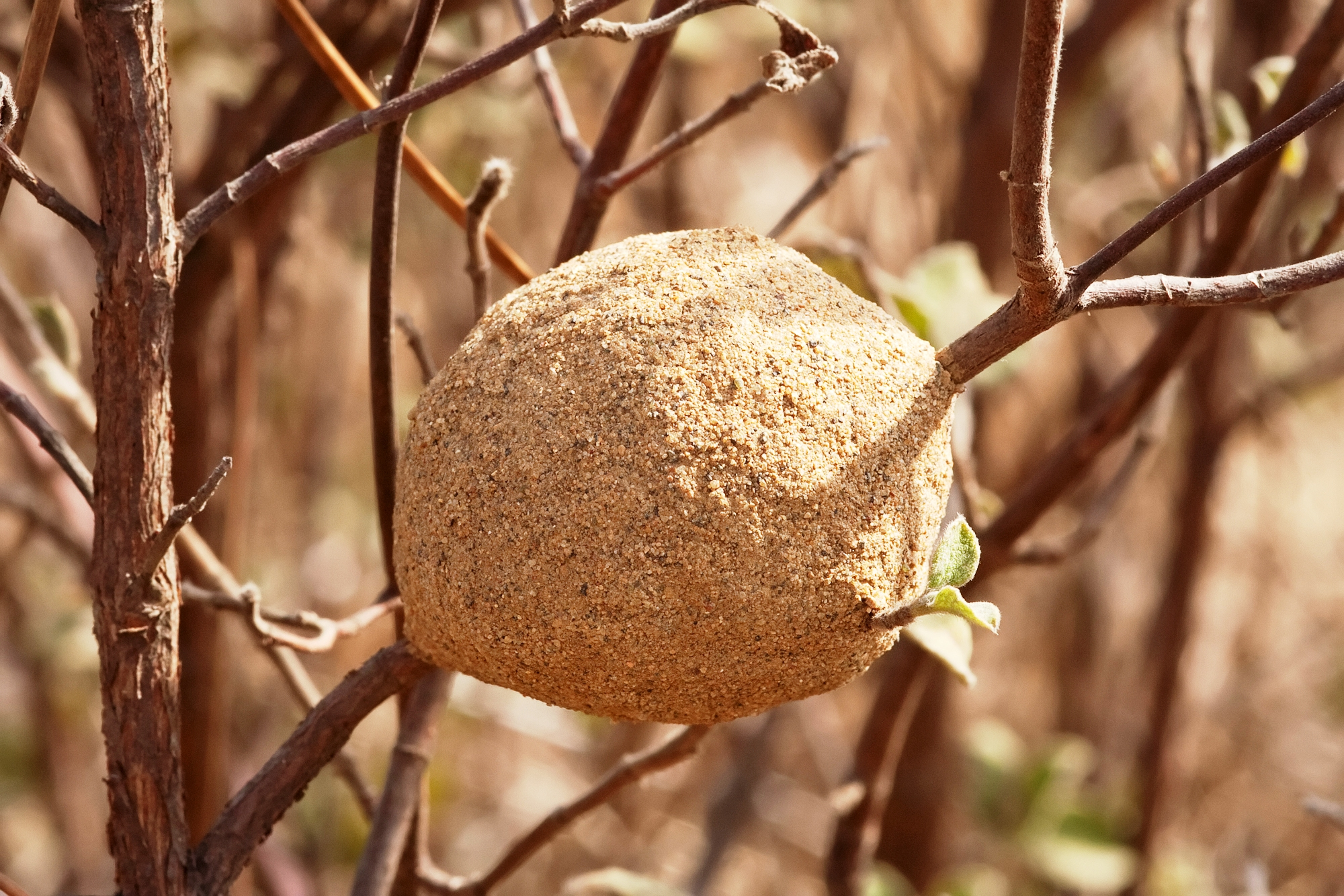 Megachile sicula nest